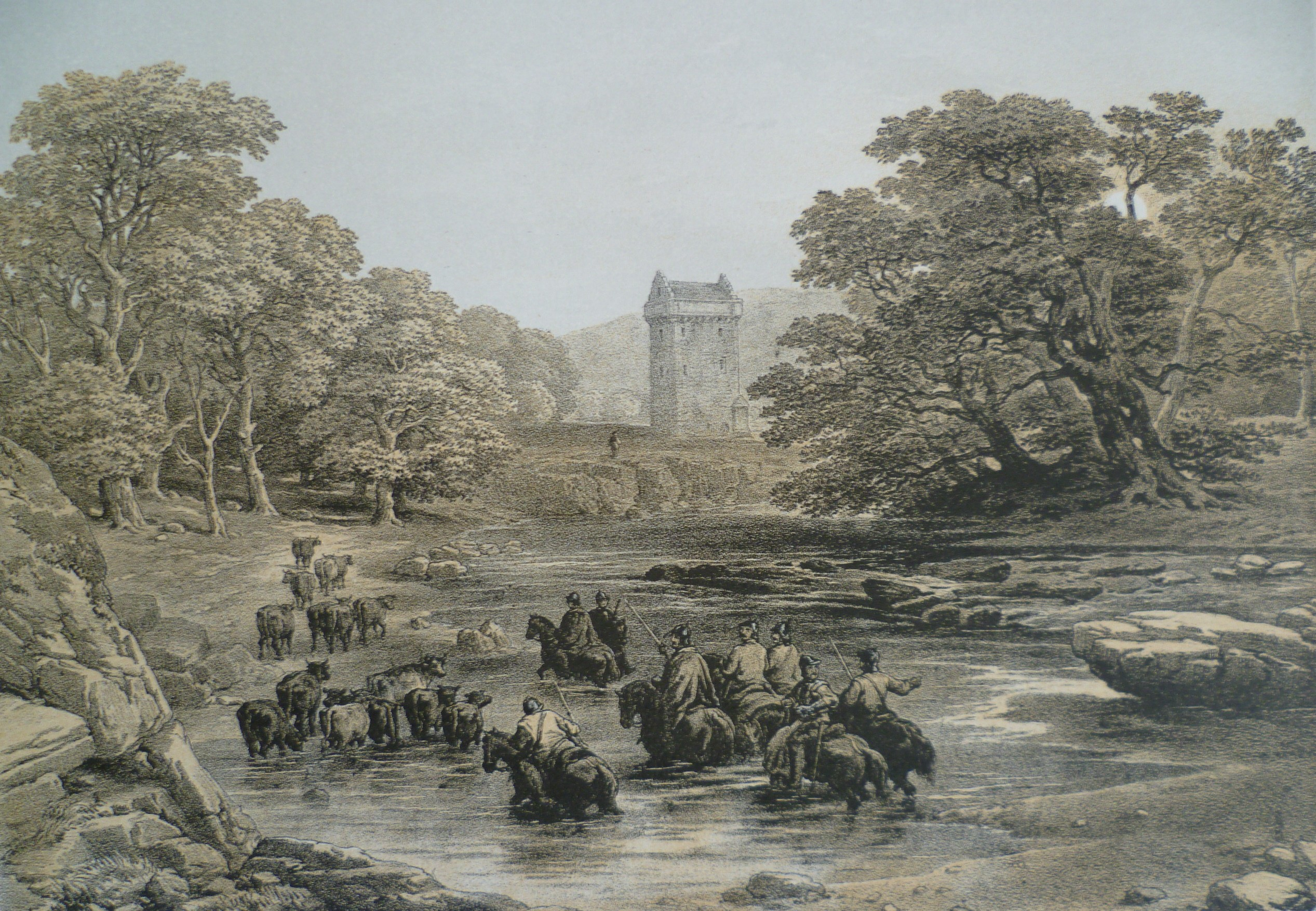 Border reivers at Gilnockie Tower, from an original drawing by G. Cattermole